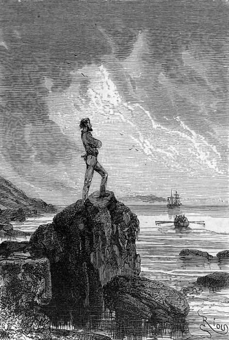 An ilustration from the novel "In Search of the Castaways; or Captain Grant's Children" by Jules Verne drawn by Édouard Riou.